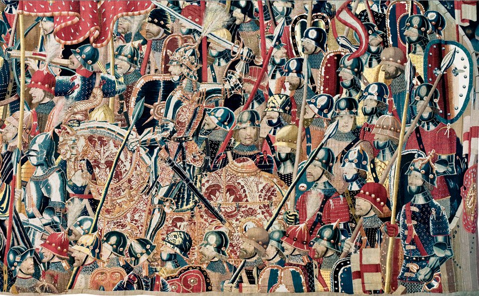 Assault on Asilah (detail), probably produced under the direction of Passchier Grenier, tapestry merchant, Tournai (Belgium), 1470s